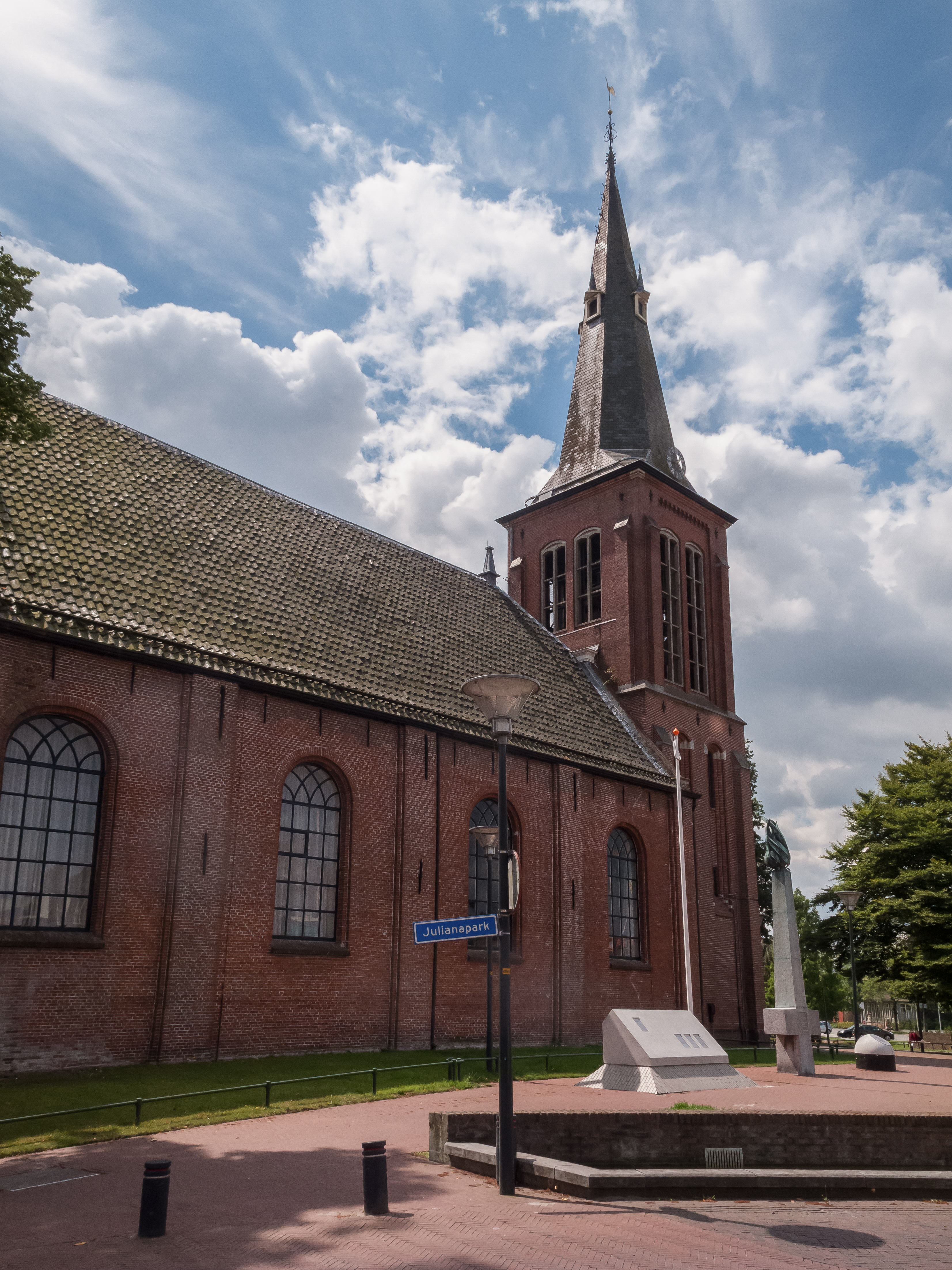 Veendam, reformed church